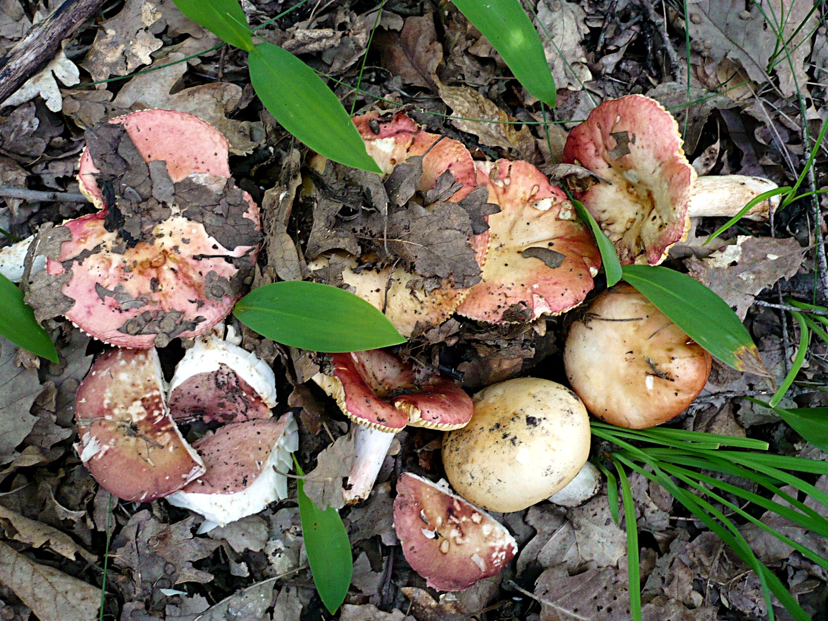 Photo (2012-05-12_Russula_maculata_Quél._&_Roze_218399.jpg) trimmed and sharpened